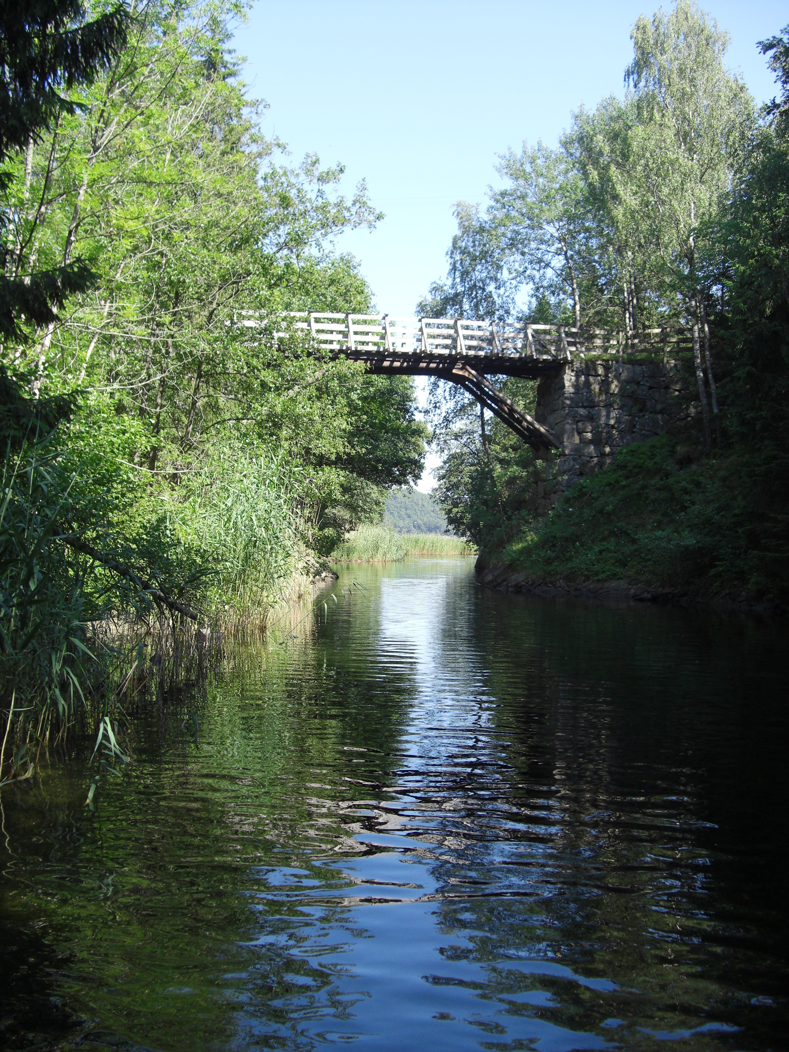 The Reddal Canal outside Grimstad